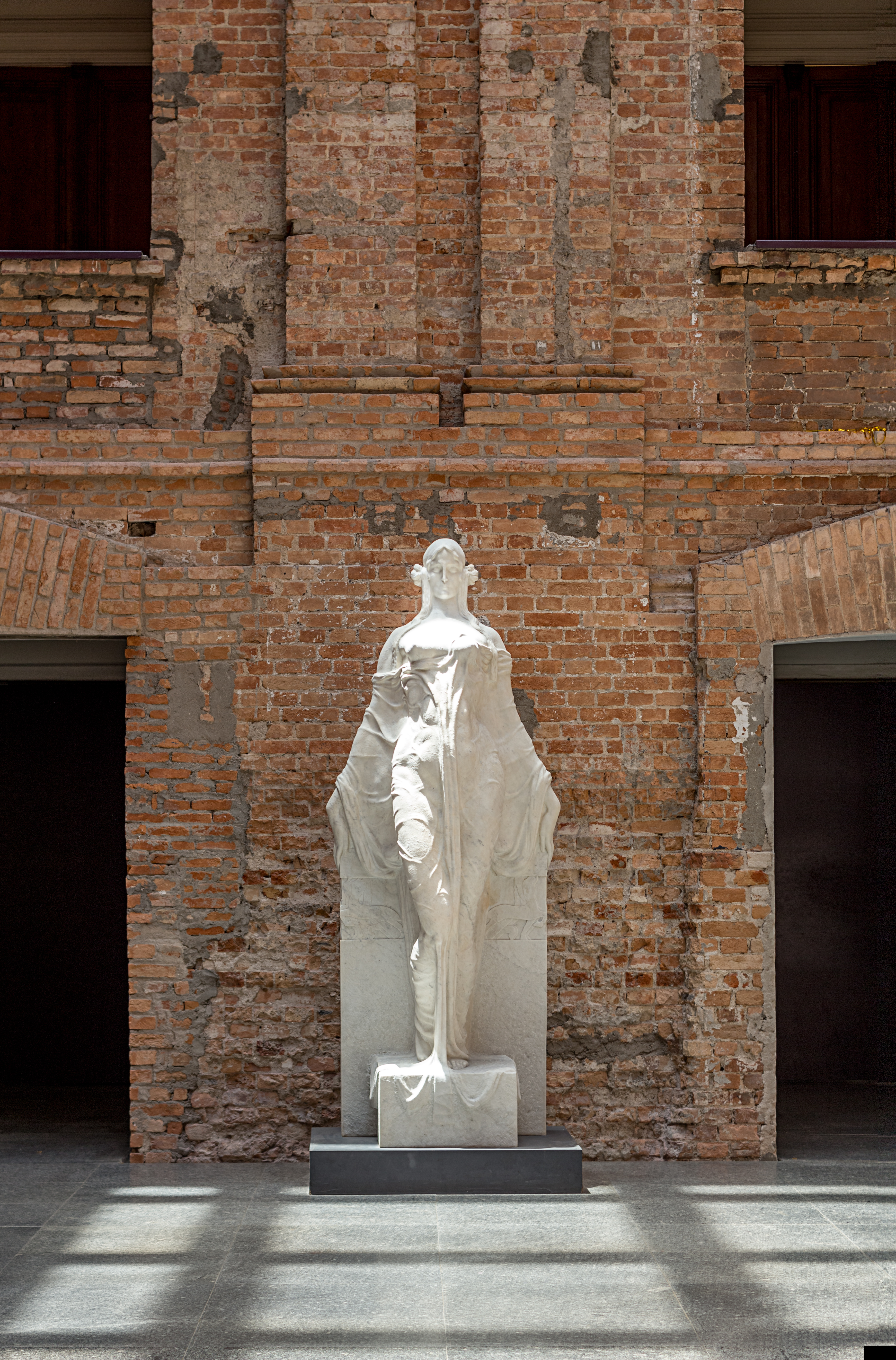 Musa impassível - Victor Brecherett